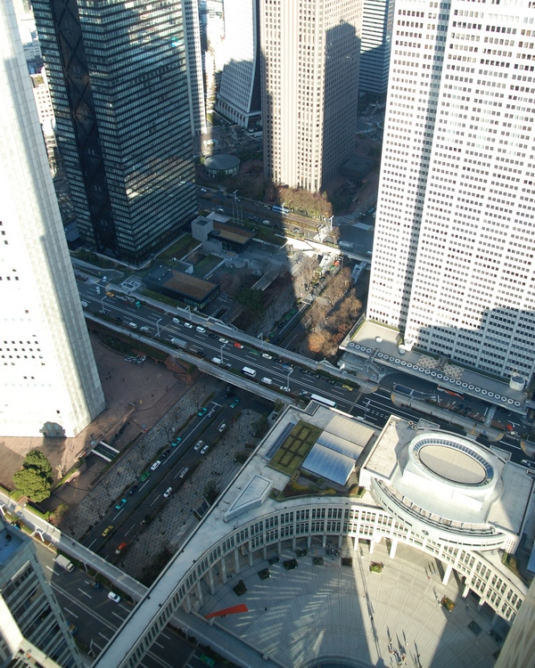 en：It photographs from Tokyo Metropolitan Government Office 45 floor ja：東京都庁45階、南展望室より撮影した新宿の風景 location: Shinjuku caption: Metropolitan Government Office S45F（Shinjuku, Tokyo, Tokyo pref, Japan） .